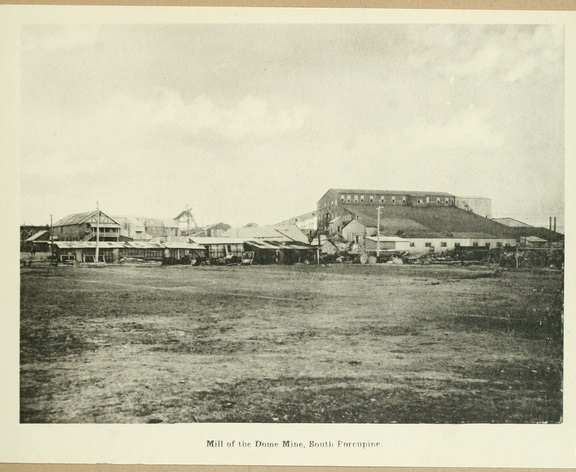 Photograph of mill at Dome Mine, South Porcupine